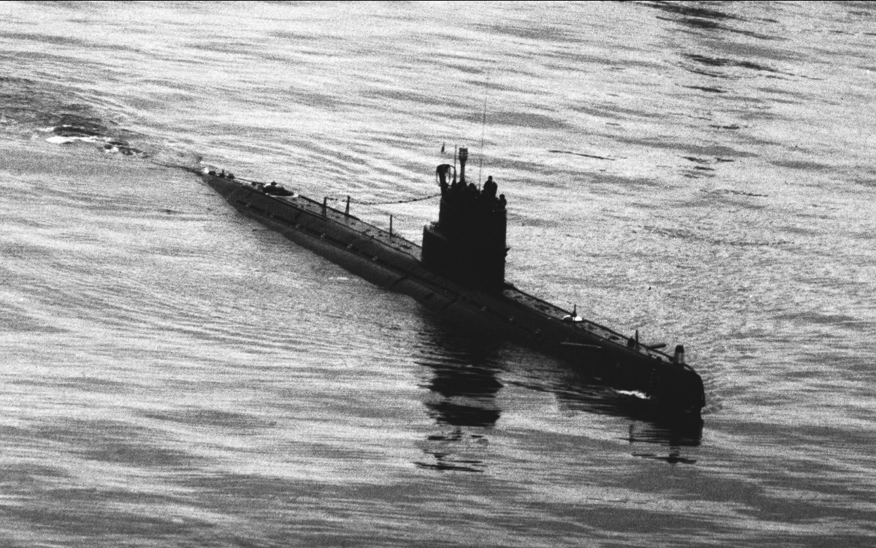 A Soviet Whiskey-class attack submarine on 10 March 1987.